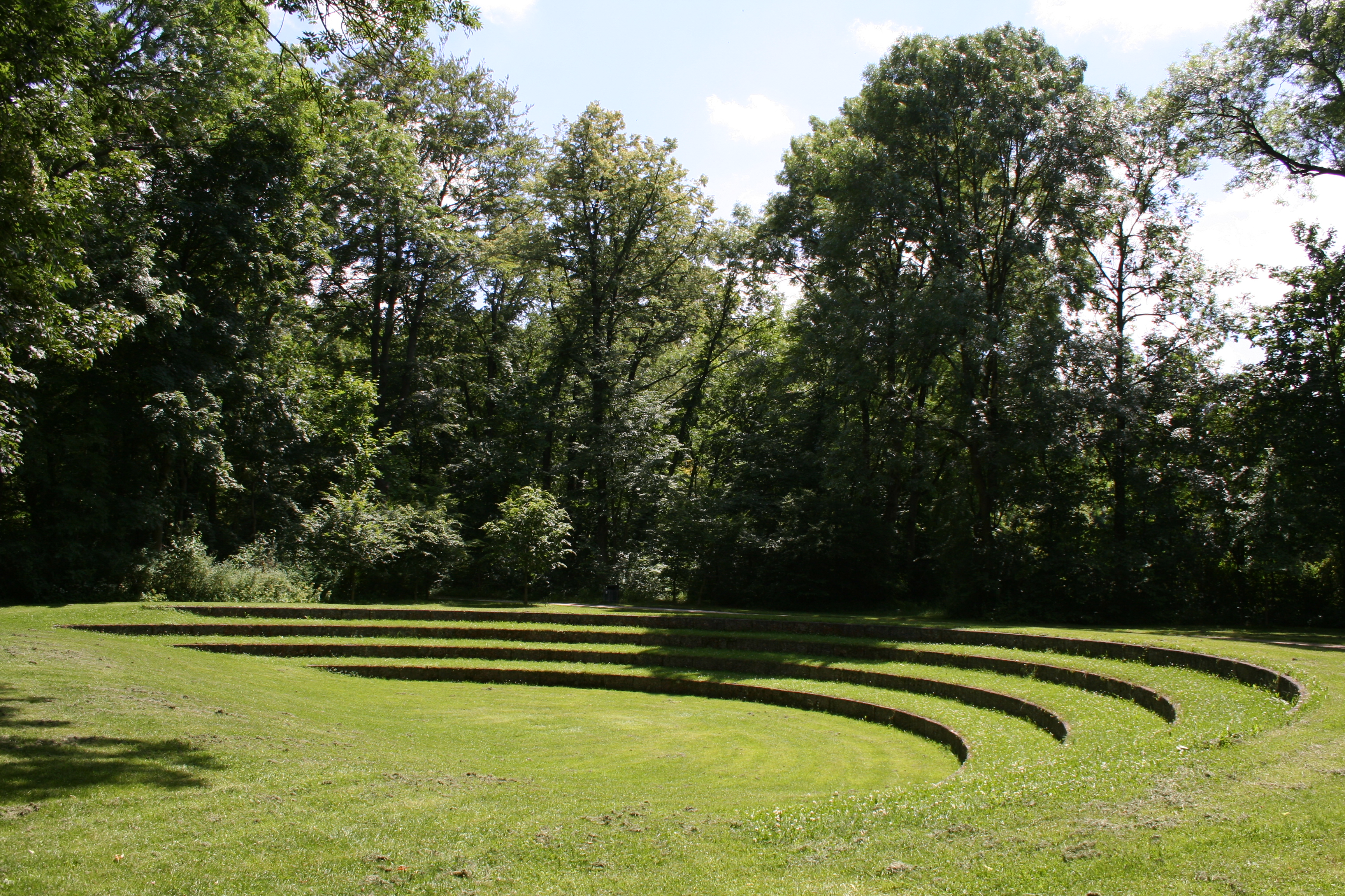 The "new amphitheatre" in the English Garden, Munich – a small open air theatre created in 1985